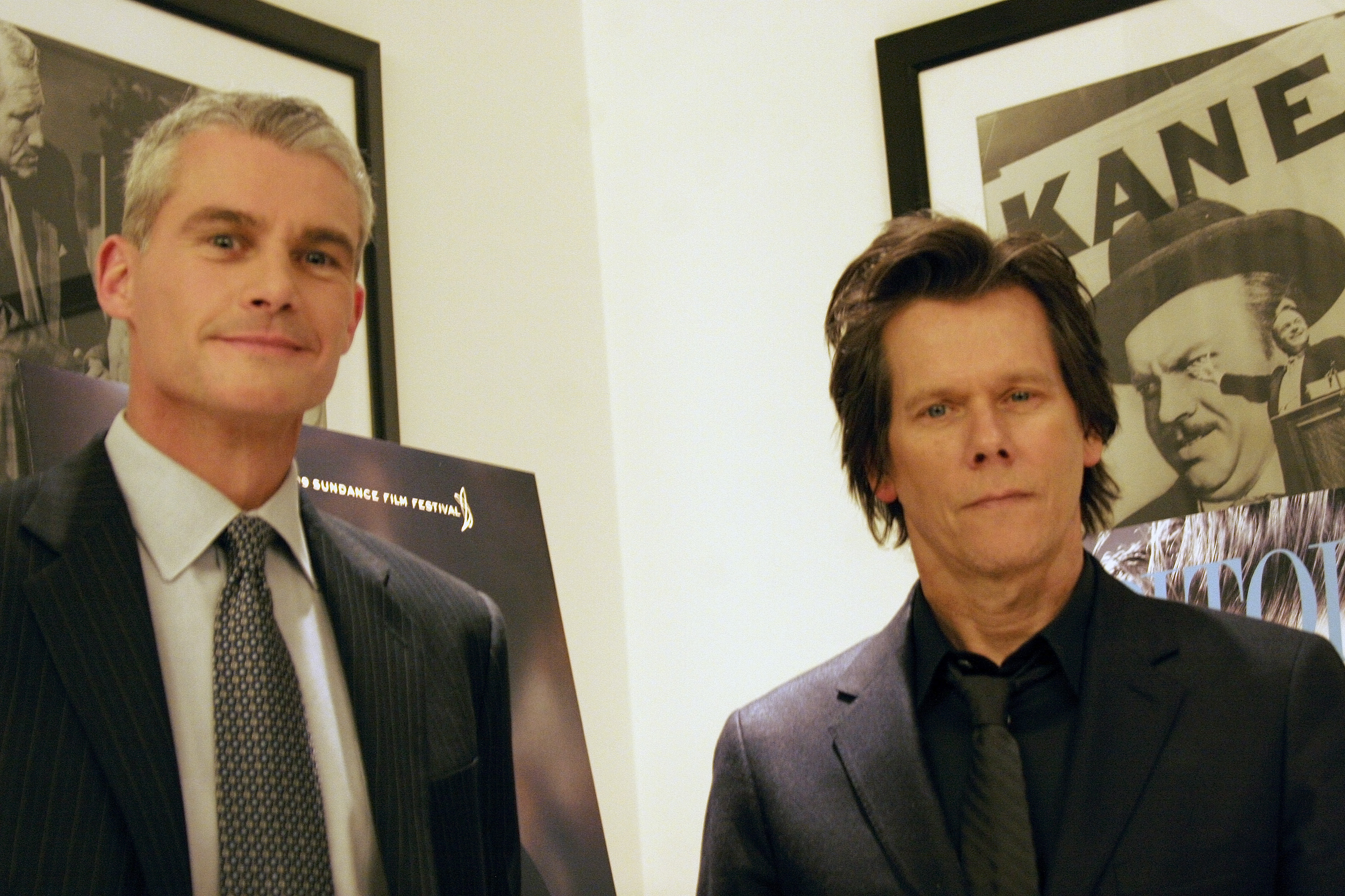 Retired Lt. Col. Michael R. Strobl stands next to actor Kevin Bacon during a premier showing of HBO's made-for-TV movie Taking Chance. Bacon plays the role of Strobl in the movie as a uniformed military escort bringing home the body of Lance Cpl. Chance Phelps who was killed in action April 9, 2004. The movie is based off of the journal Strobl kept during the escorting of Phelps from Dover Air Force Base in Dover, Del., to Phelps hometown in Dubois, Wyo.